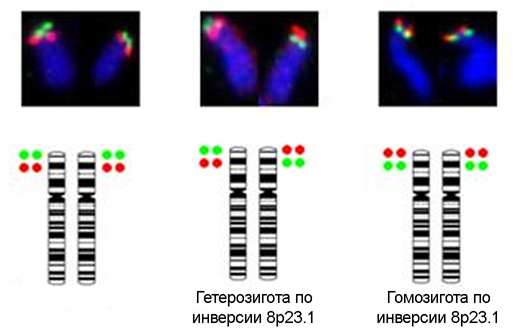 FISH analysis for 8q23.1 inversion polymorphism